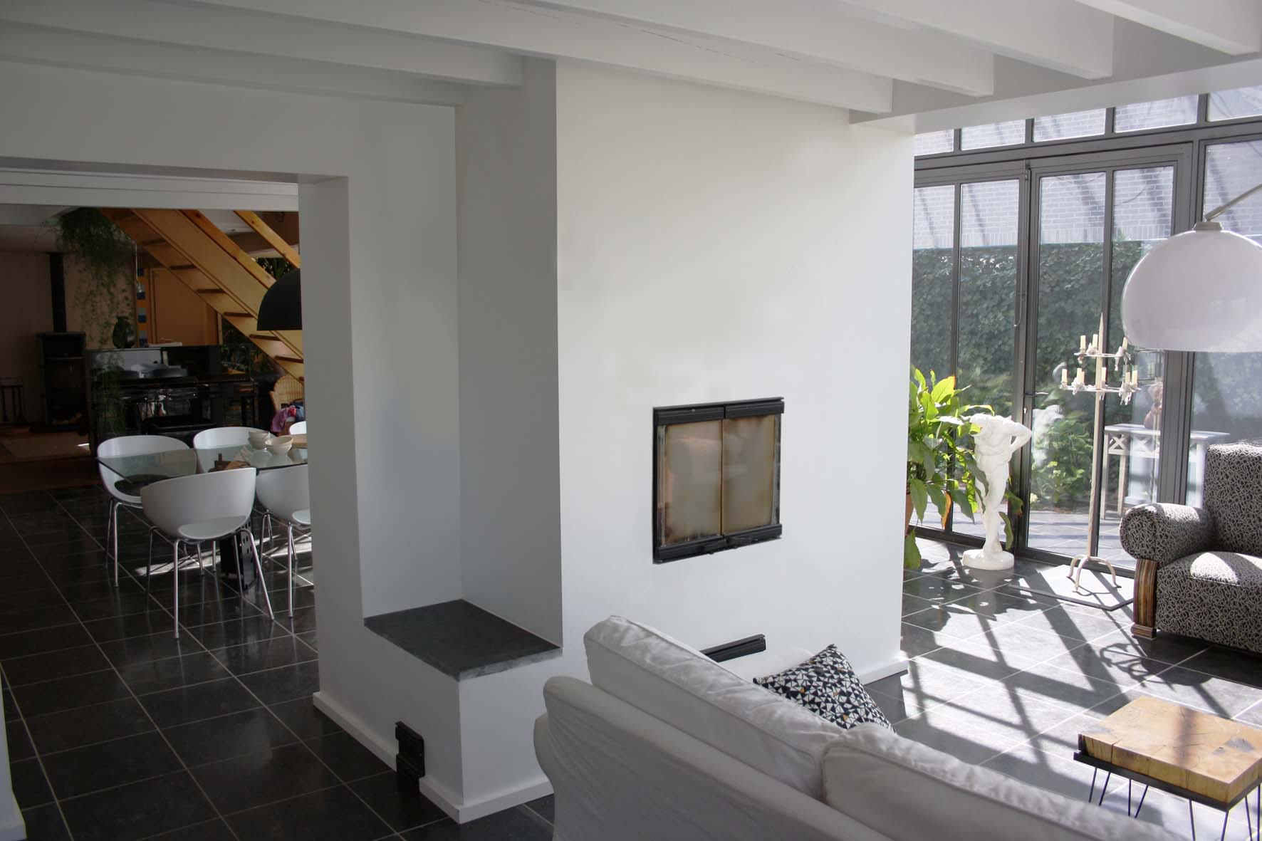 Example of a masonry heater